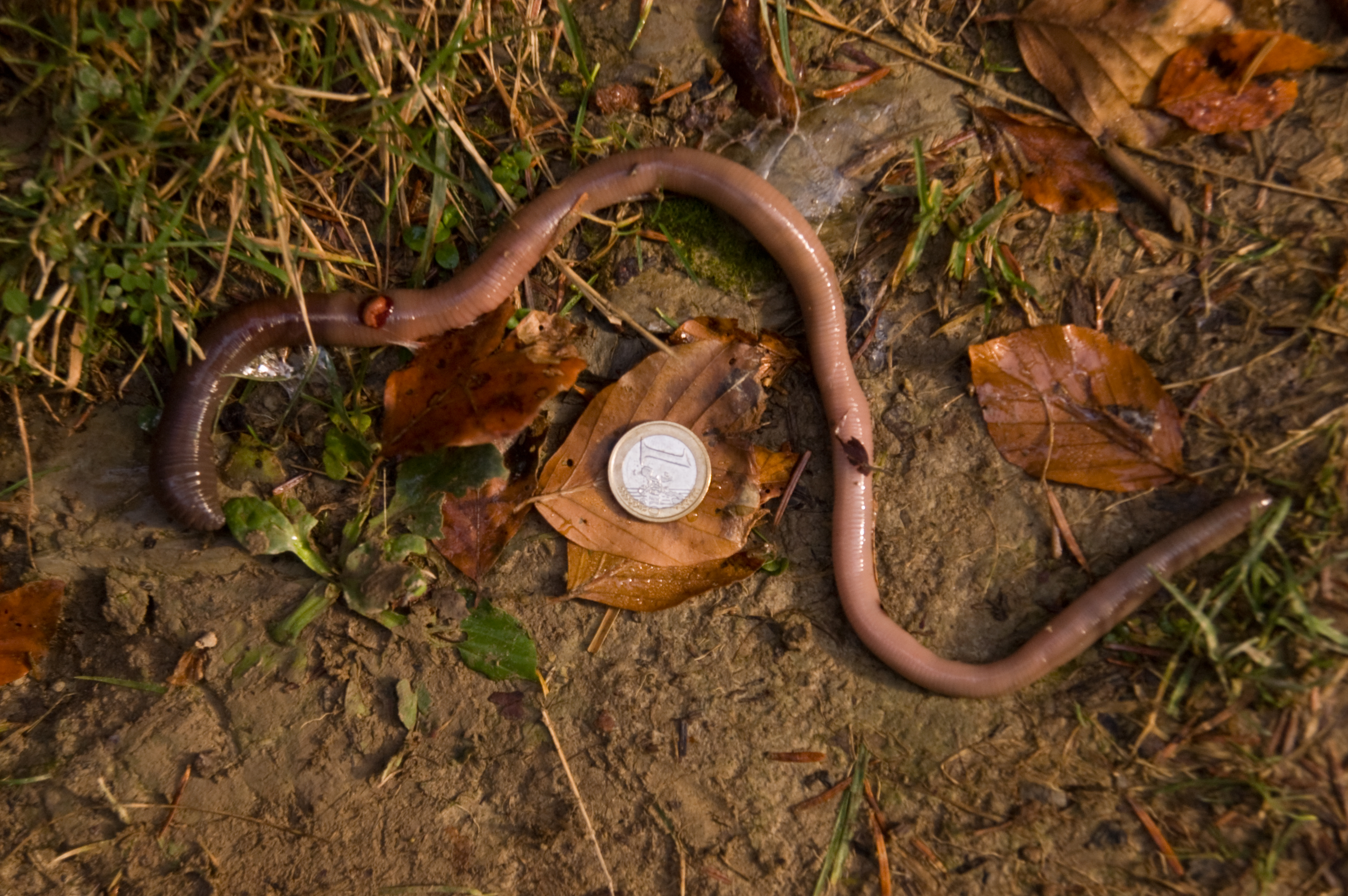 earthworm (Lumbricidae)with 1 euro coin